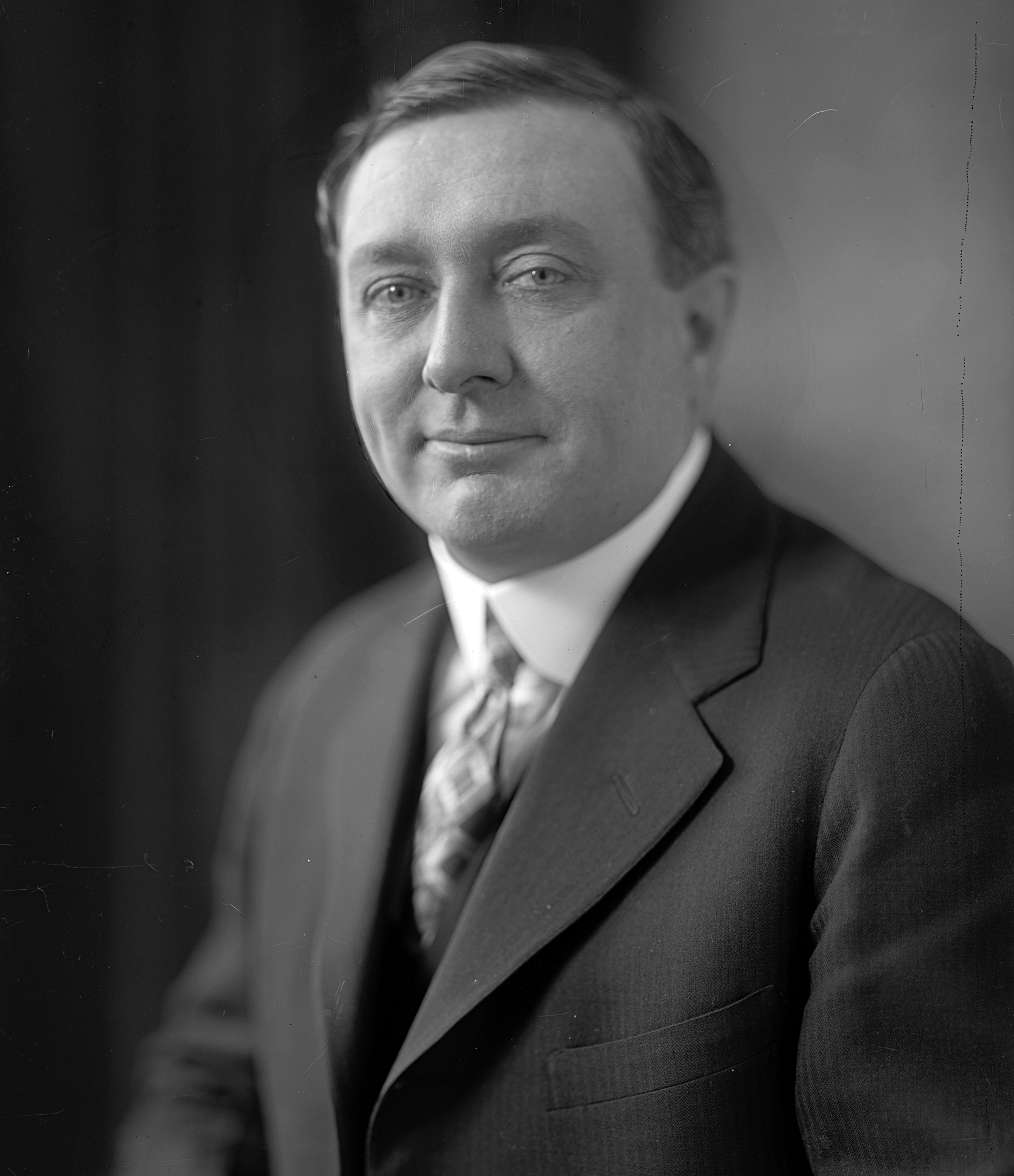 John J. Gorman, US Representative from Illinois